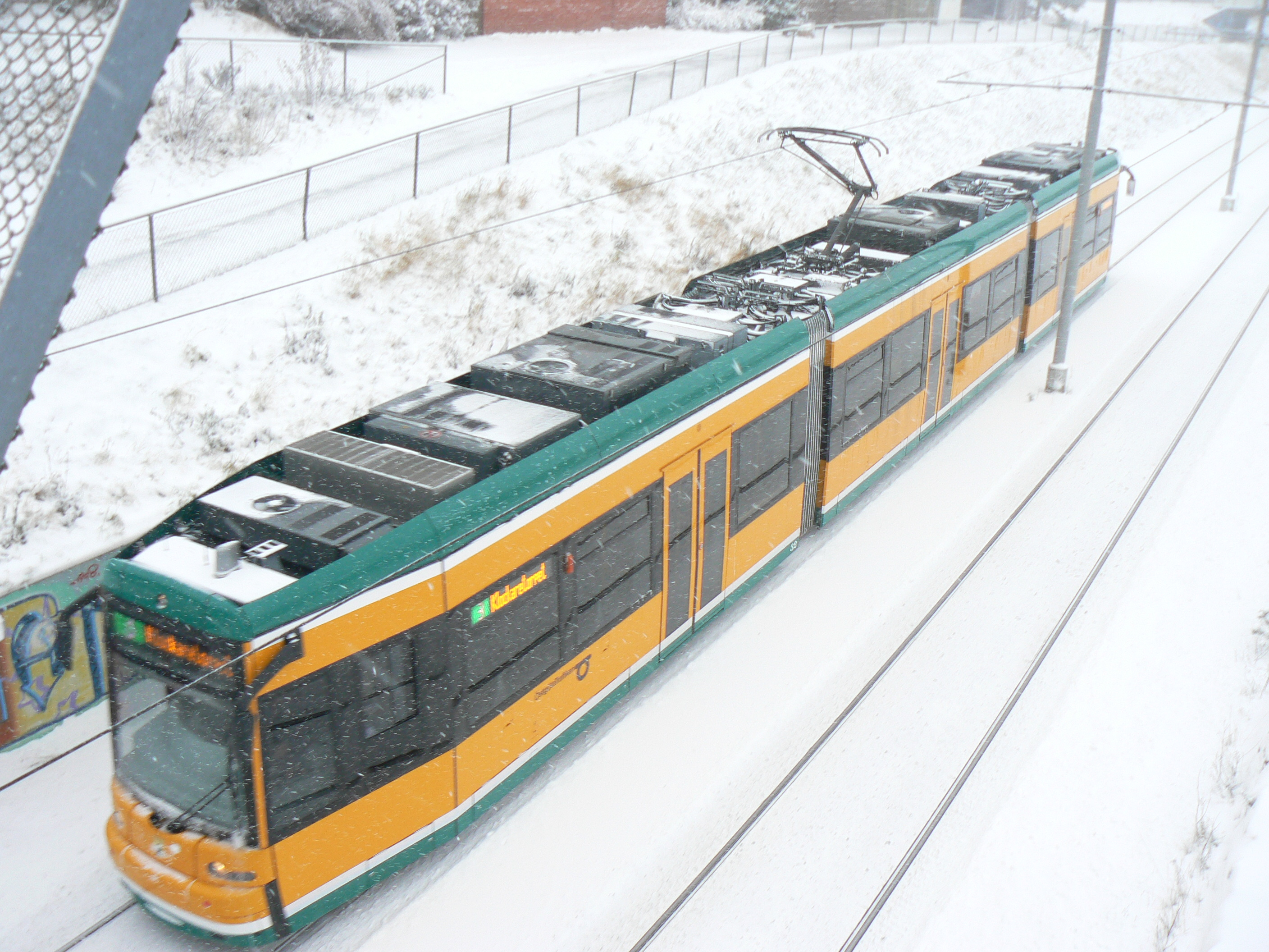 M06 (Flexity Classic) tram in Klockaretorpet, Norrköping.